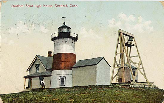 Postcard picture: "Stratford Point Light House", Stratford, postmarked 1908 Caption: "Stratford Point Light House"